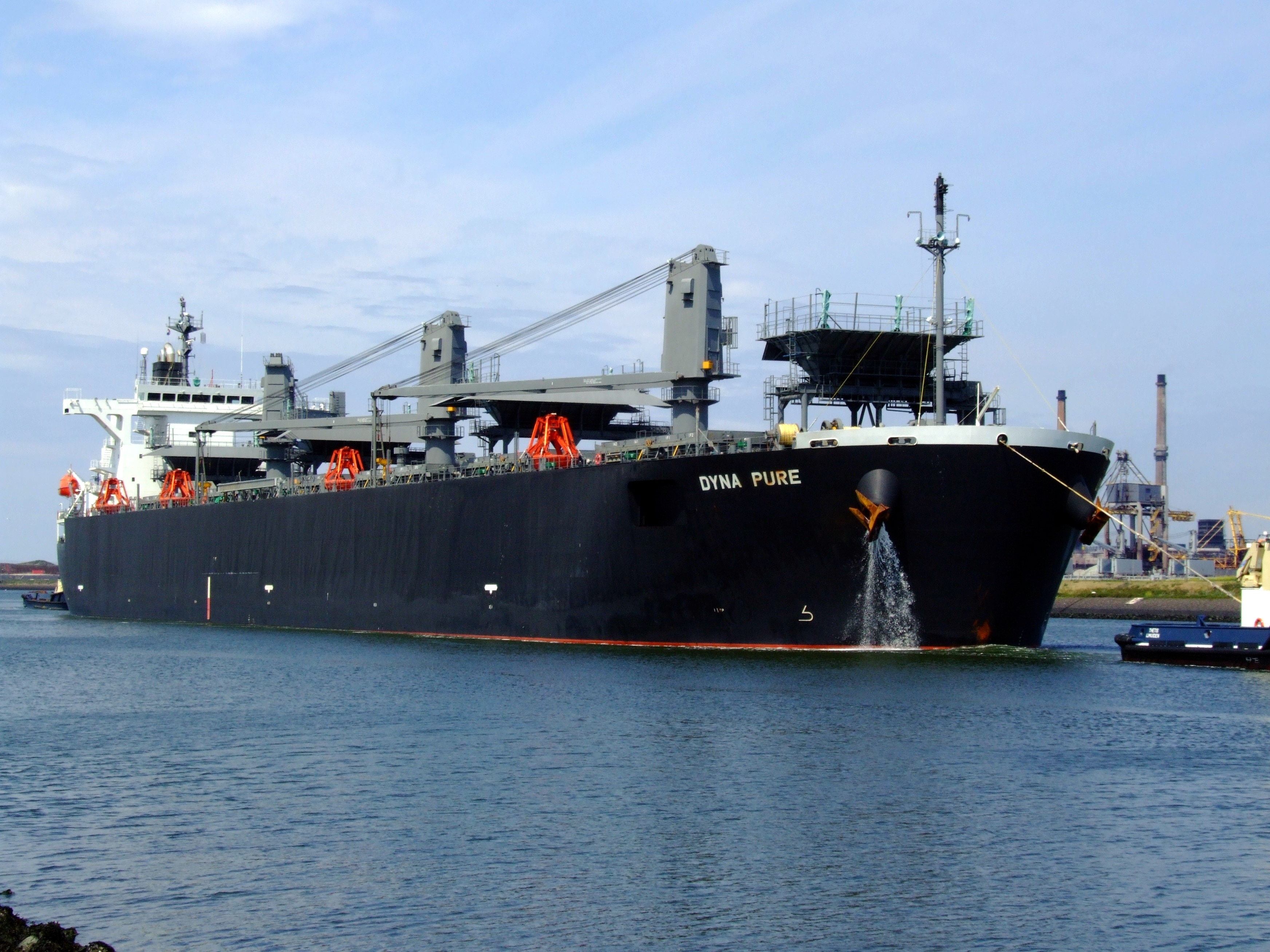 Photographed at Port of Amsterdam, The Netherlands